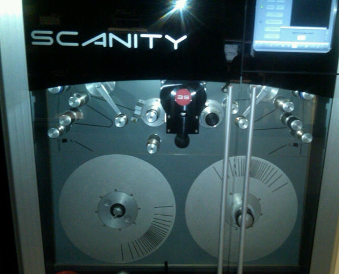 Self Telecineguy My camera I am copyright holder of this work and release it for use.